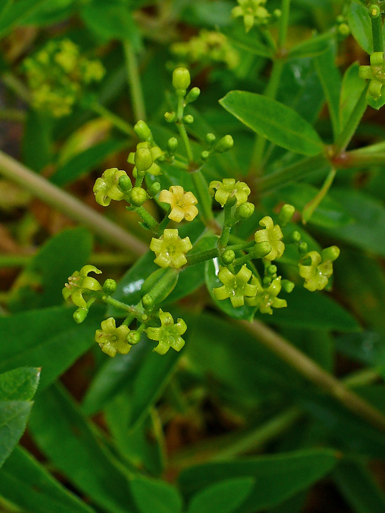 Rubia tinctorum, Rubiaceae, Common Madder, inflorescence. Botanical Garden KIT, Karlsruhe, Germany.